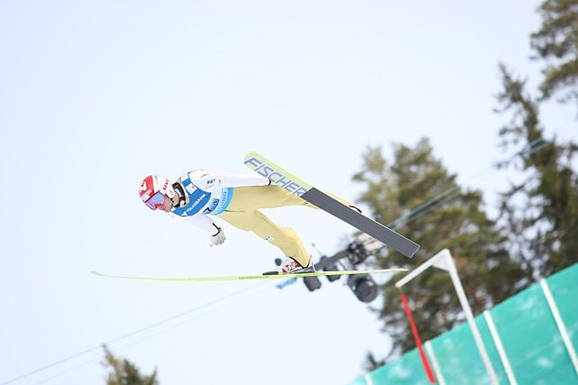 Robert Kranjec during team competition of FIS Ski-Flying World Championships 2012